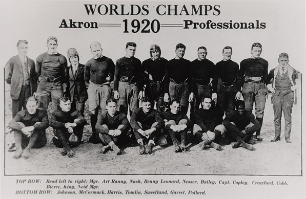 In 1920, the Akron Pros won the first NFL Championship. This is a team photo of that 1920 team.